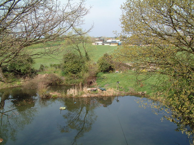 Ashford Park. Ashford Park Primary School as viewed from a footbridge over the Staines to Waterloo railway line.